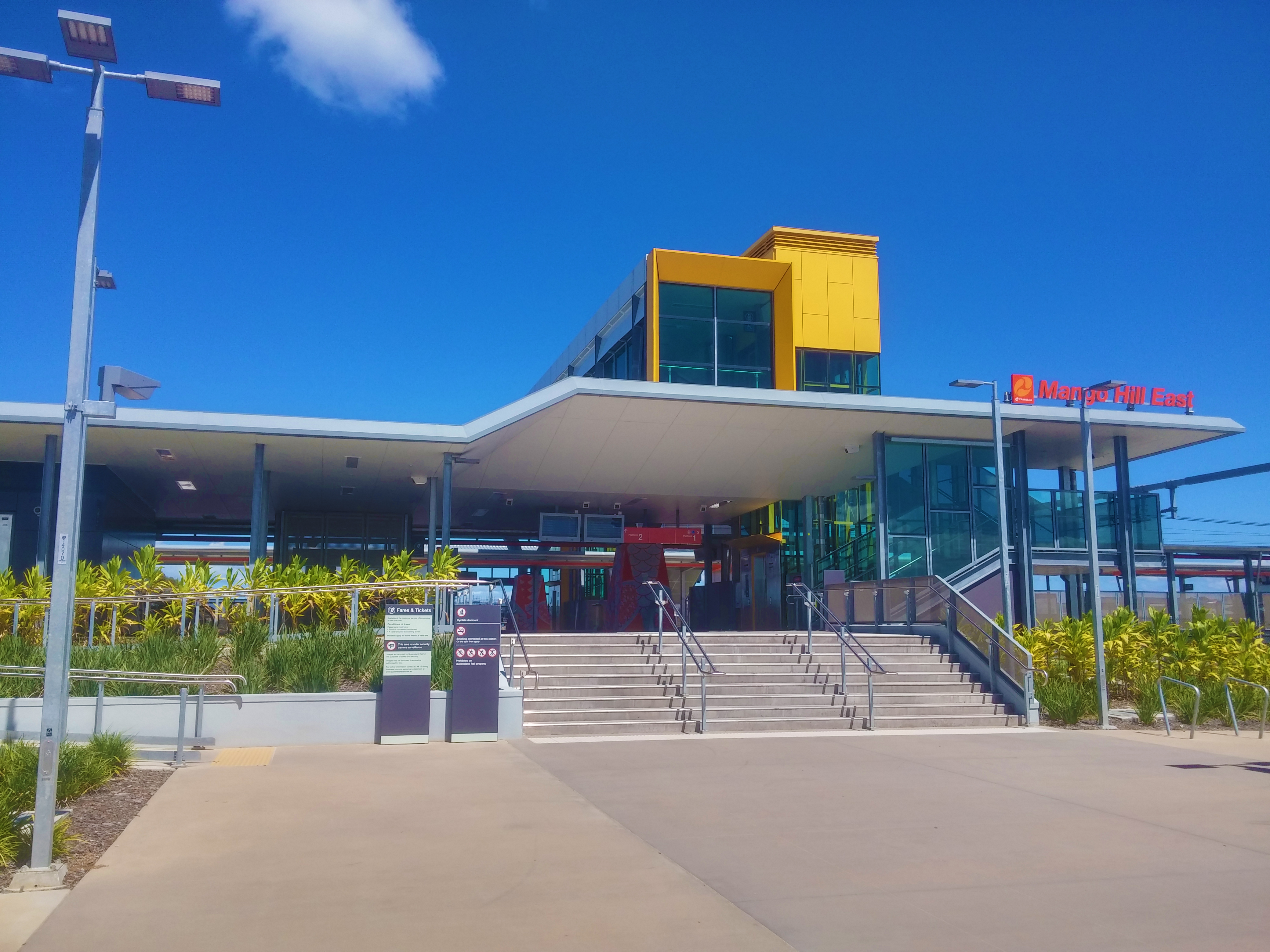 Mango Hill East railway station on the Moreton Bay line in Brisbane.